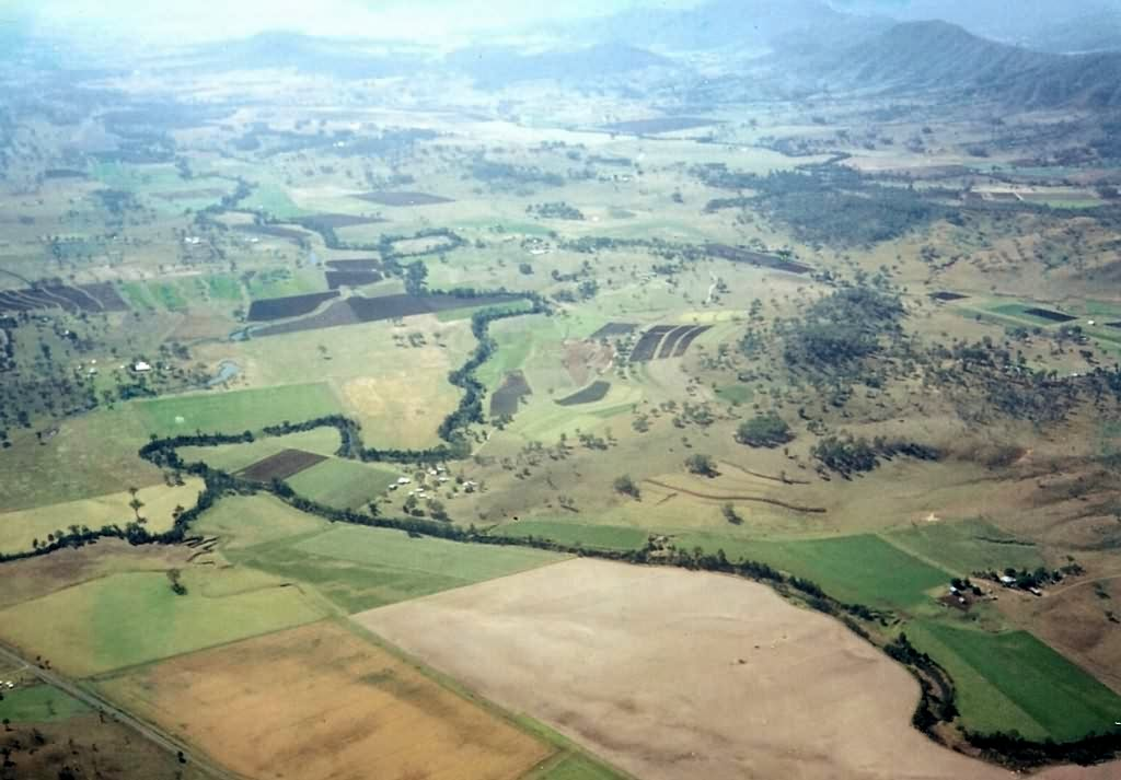 Farming lands south east of Beaudesert in South East Queensland, Australia. The Albert River and a tributary Cainbable Creek joining from the right, can be seen as a winding dark green line of trees heading into the background. Localities shown include Nindooinbah and Tabragalba. Photo taken in the mid 1990s from a light plane.